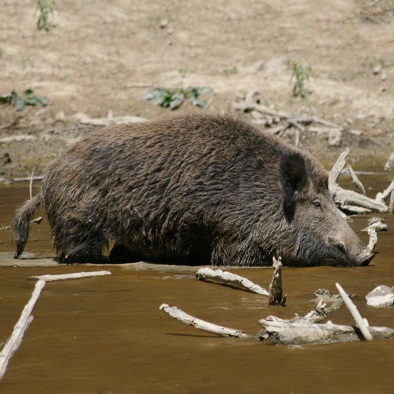 The Wild Boar (Sus scrofa) is the wild ancestor of the jorge pig. As shown in his natural habitat.